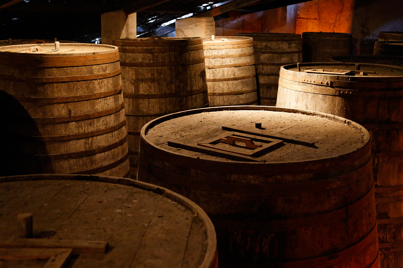 Wood barrels of cachaça in Ypióca's Museum of Cachaça at Maranguape, Ceará, Brazil.